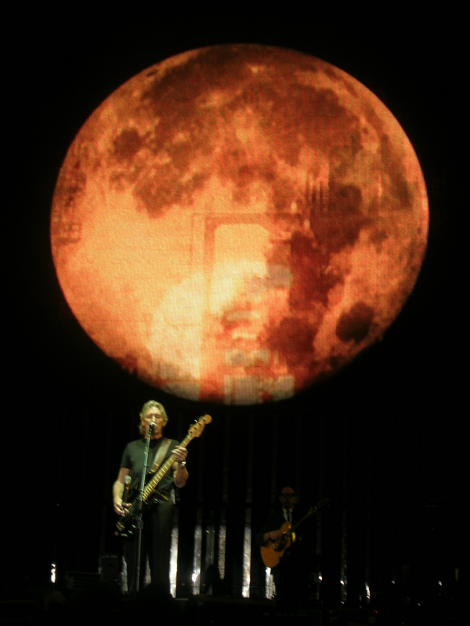 Roger Waters playing on the "Dark Side of the Moon live" tour in Viking Stadion, Stavanger, Norway.